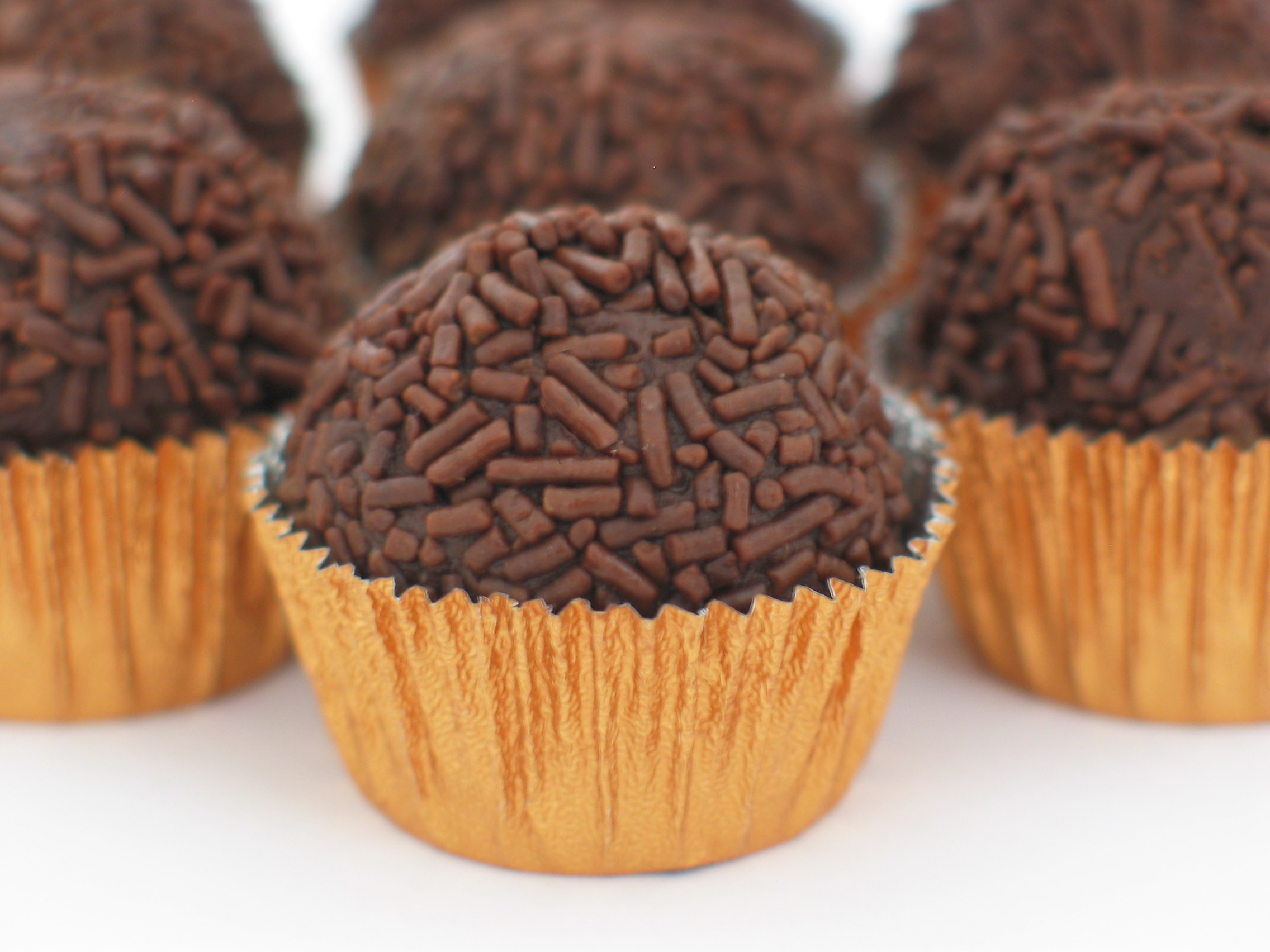 Picture of Brazililan sweet Brigadeiro